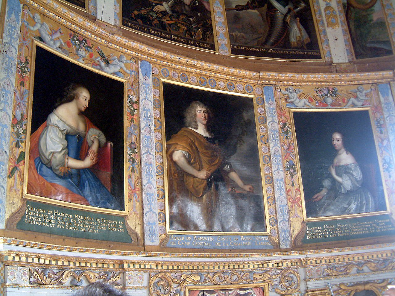 Chateau de Bussy-Rabutin, Bussy le Grand, Bourgogne, France